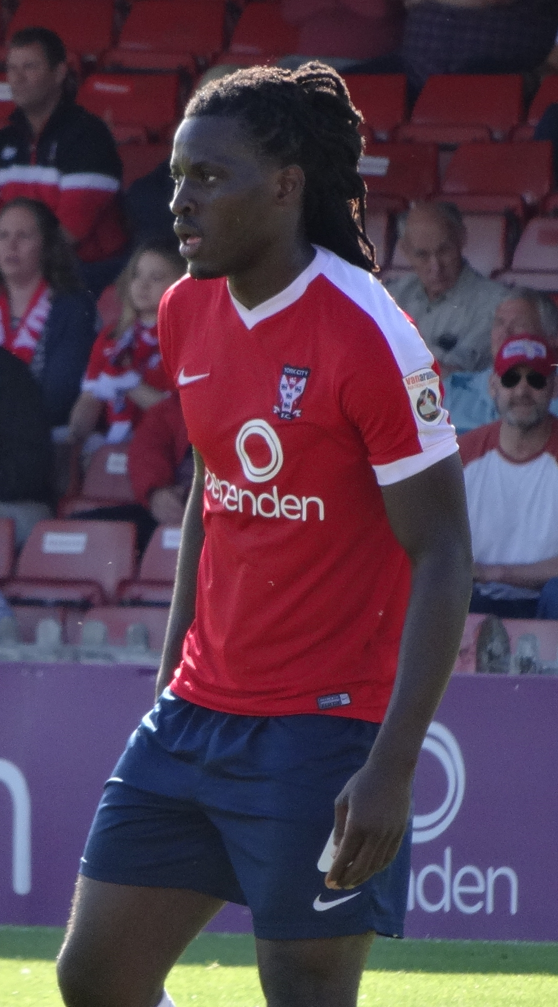 Clovis Kamdjo playing for York City against Boreham Wood at Bootham Crescent, York on 13 August 2016